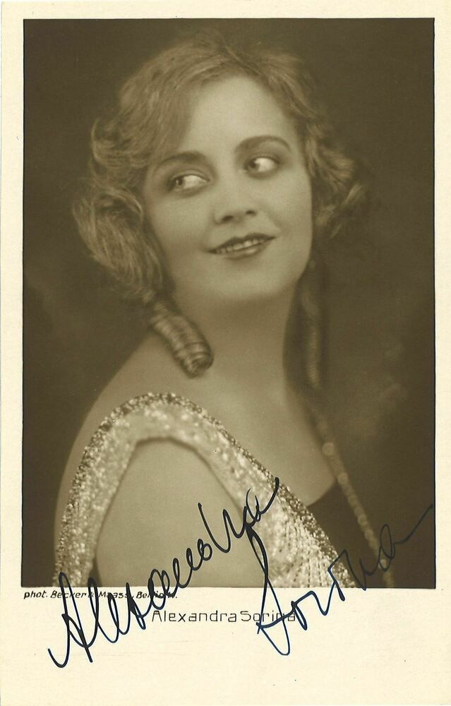 Autographed postcard portrait of Belarusian/Russian Empire-born actress Alexandra Sorina (1899–1973) by Becker & Maass, Berlin.